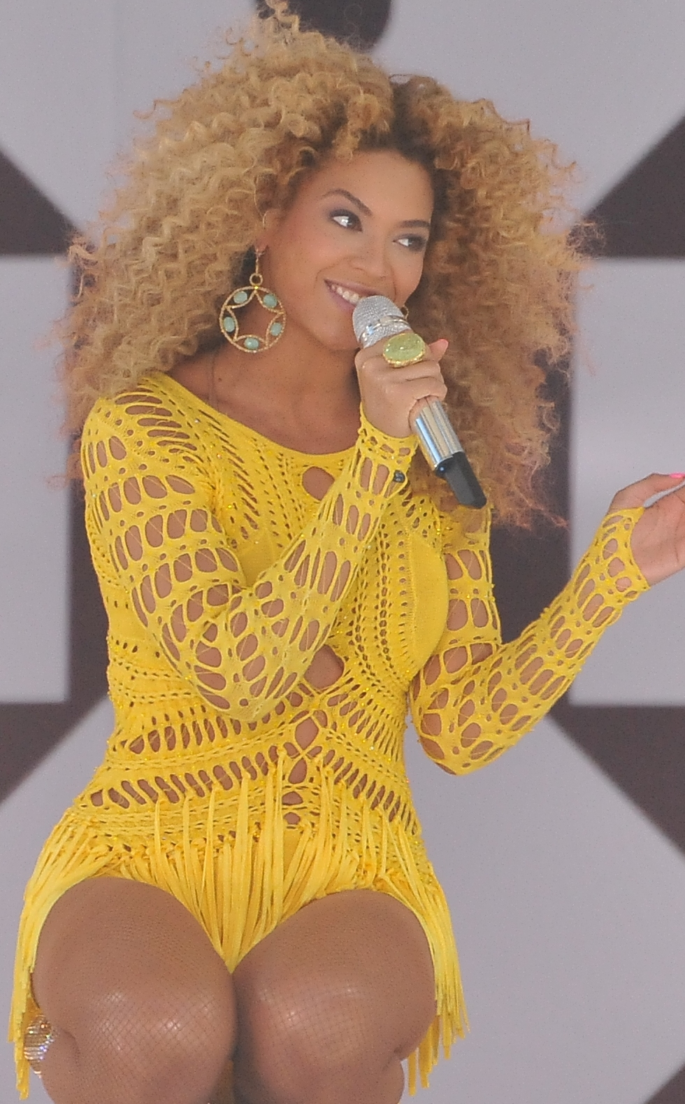 Beyoncé in Good Morning America (Central Park, Manhattan)